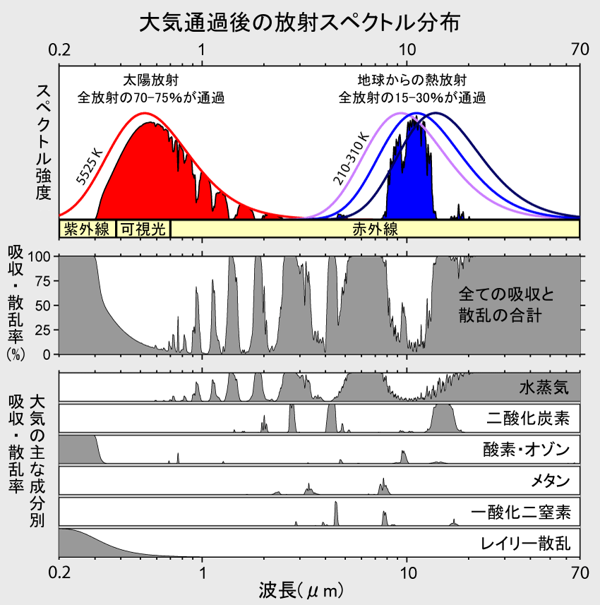 This figure shows the absorption bands in the Earth's atmosphere (middle panel) and the effect that this has on both solar radiation and upgoing thermal radiation (top panel). Individual absorption spectrum for major greenhouse gases plus Rayleigh scattering are shown in the lower panel.